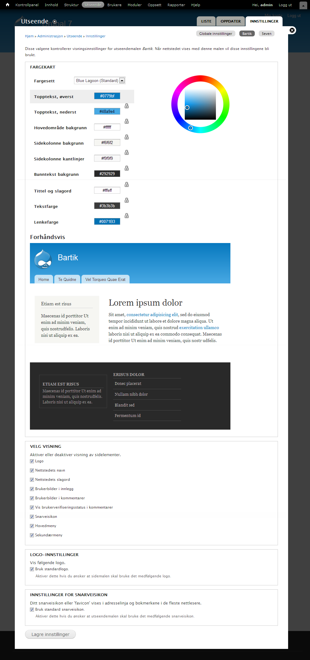 The color editor being used to adjust the "Bartik" core theme